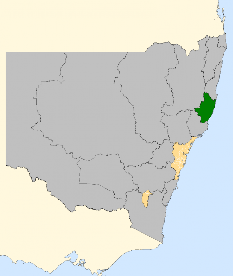 Division of Lyne 2007, with surrounding divisions